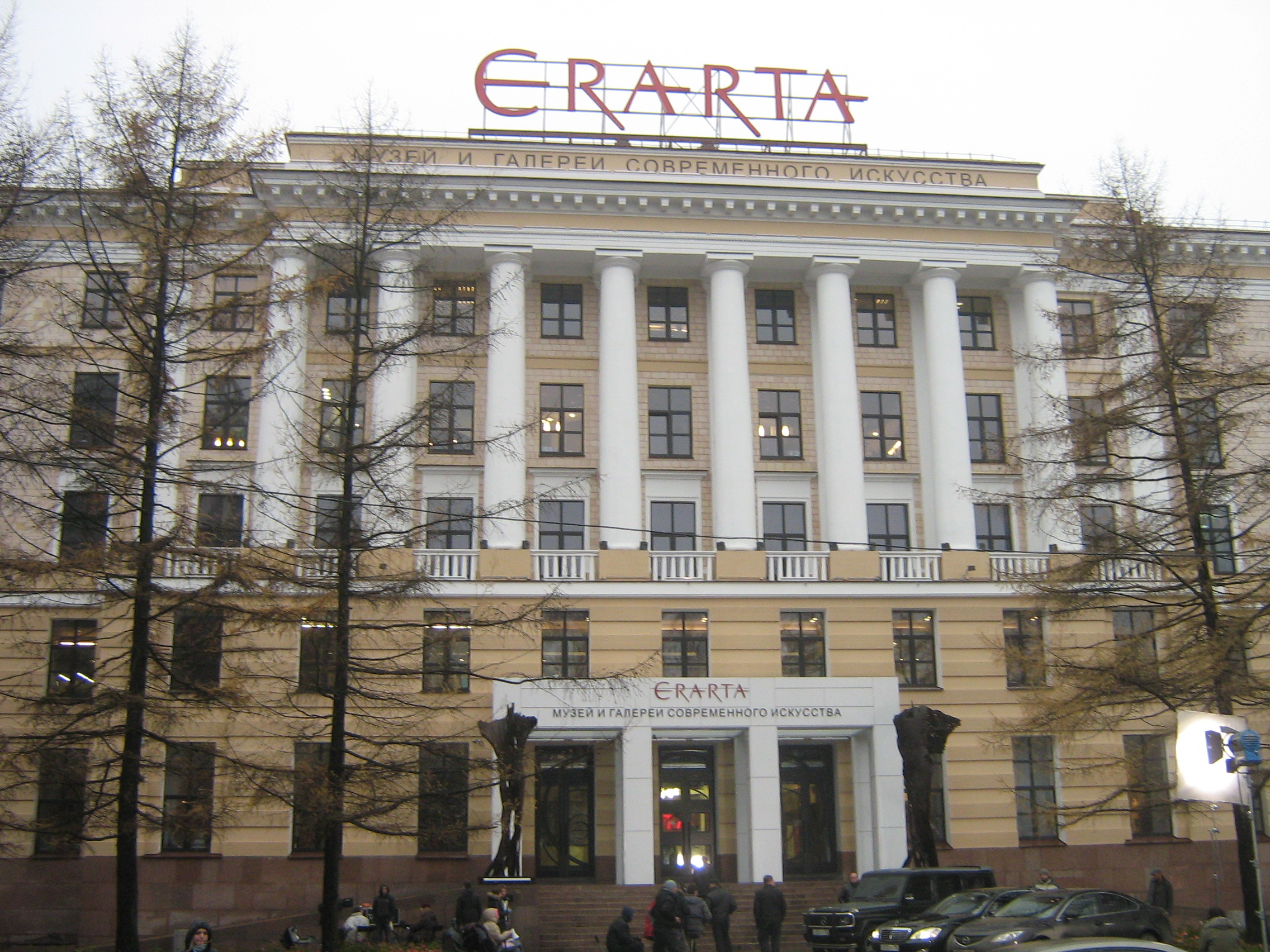 Saint Petersburg (Russia), Vasilievsky Island